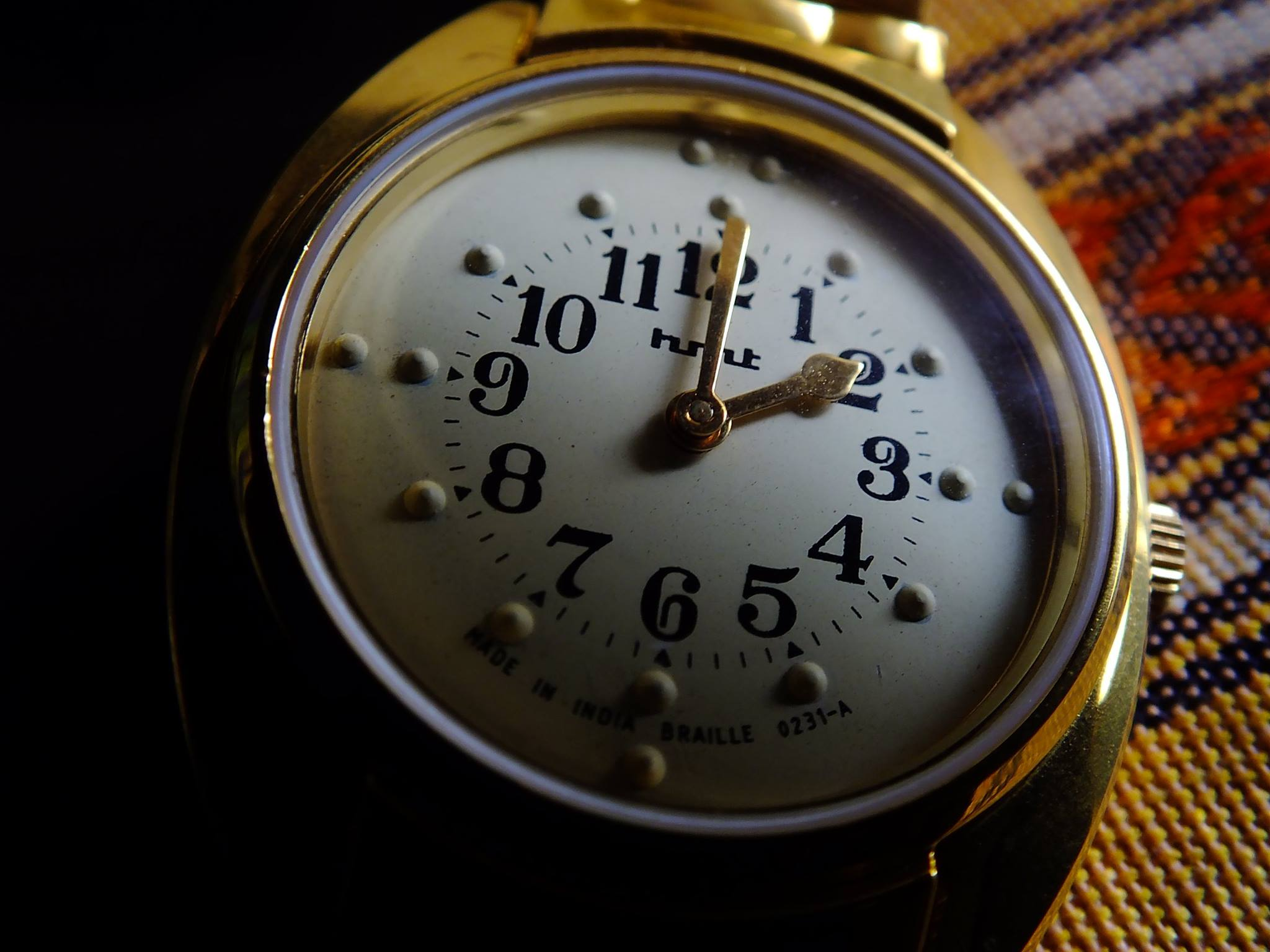 Watch made for visually challenged people